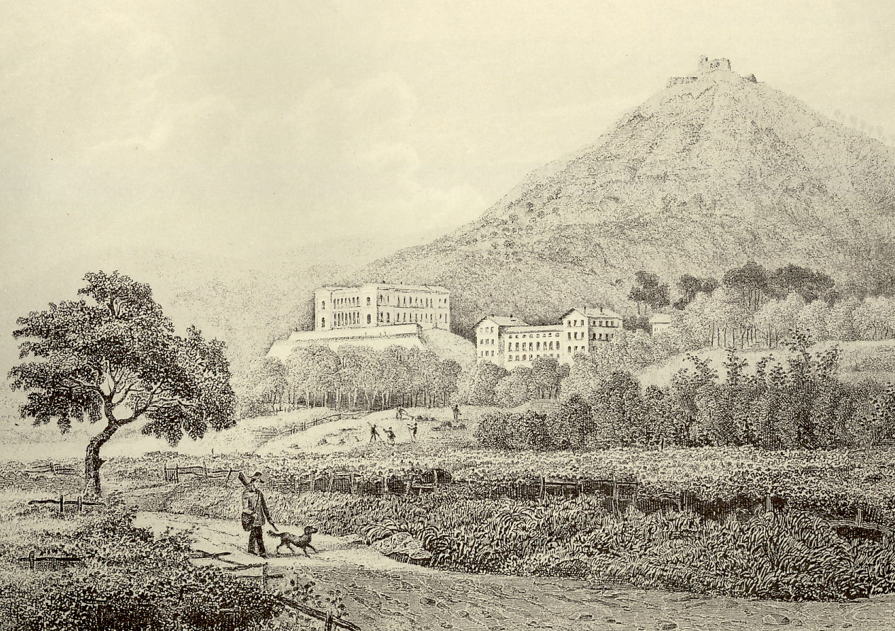 historical sight of the German castle of Ludwigshöhe by Ludwig Rohbock and Johann Poppel